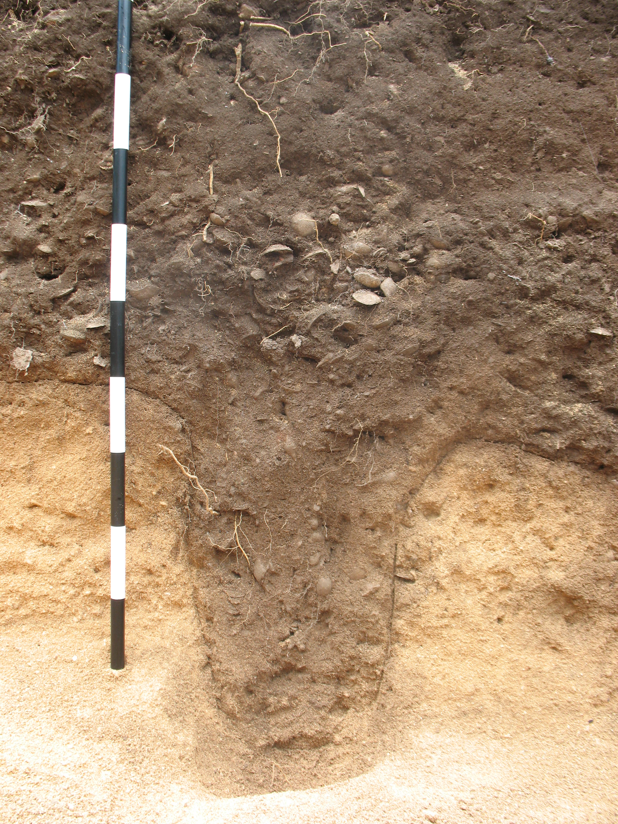 Bourewa archaeological site (Fiji) excavated pits in 2009 n